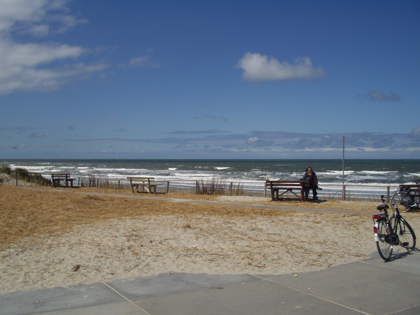 Picture of Netherlands island Ameland